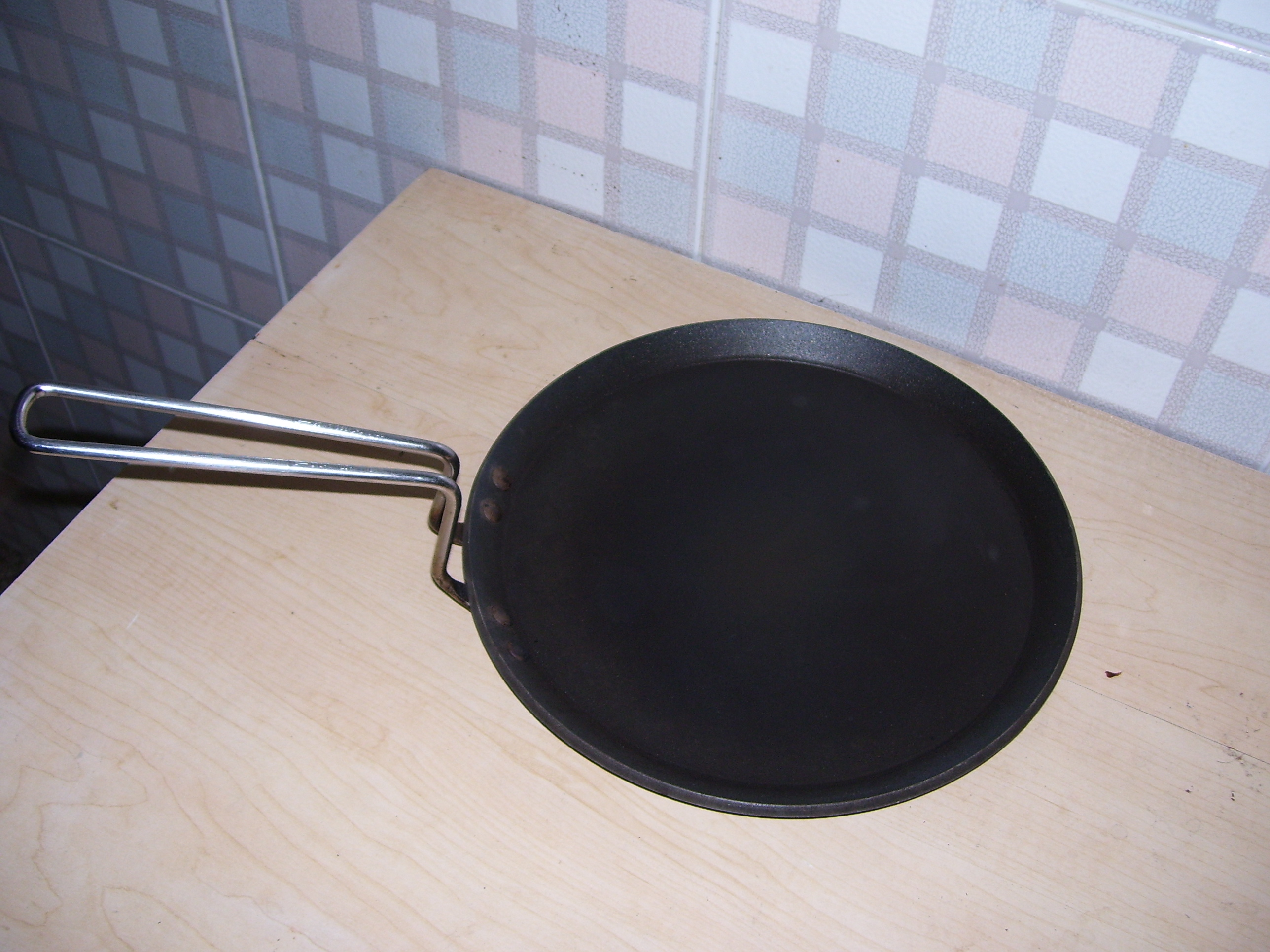 Indian griddle ( Tawa or Tava ) used for making Dosa, chapati and other dishes.